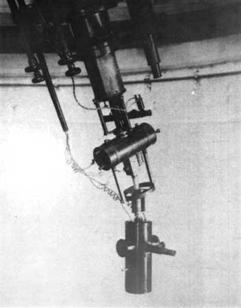 photoelectric photometer mount on refractor, 1913, University of Illinois Observatory